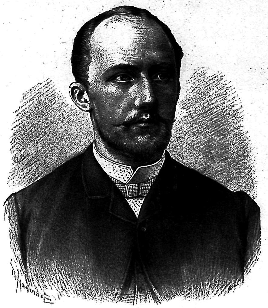 Count Miroslav Kulmer Junior, Croatian politician